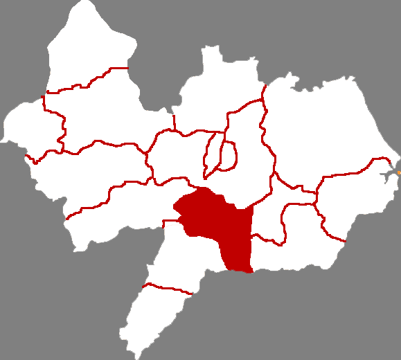 Location of Nanpi county in Cangzhou City, China